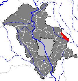 This map shows the area of the Gemeinde (municipality) Brodingberg in the Bezirk (district) Graz-Umgebung, Styria, Austria.